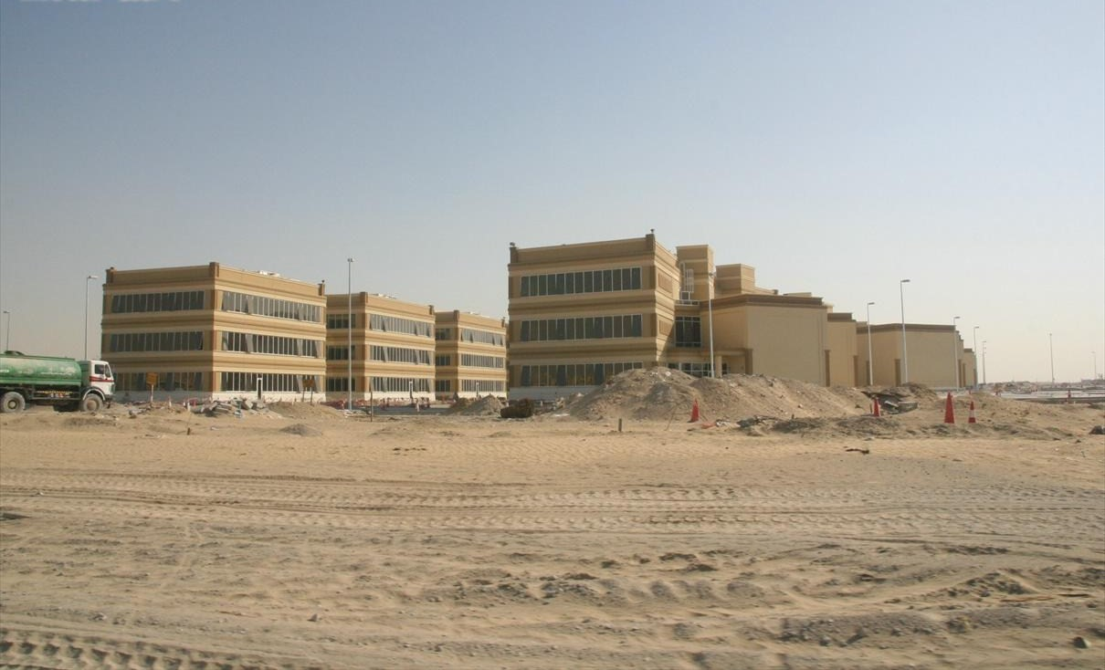 This is a photo showing the construction of Dubai Studio City, located in Dubai, United Arab Emirates, on 12 June 2007.